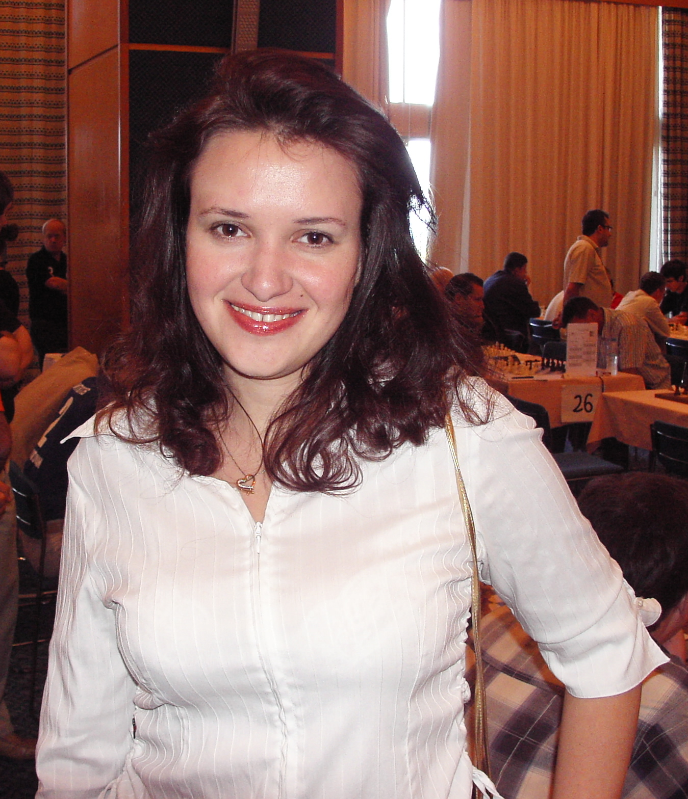 IM Anna Zatonskih United States of America, 24th European Club Cup 2008 Halkidiki, Greece